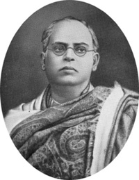 DwijendraLRoy